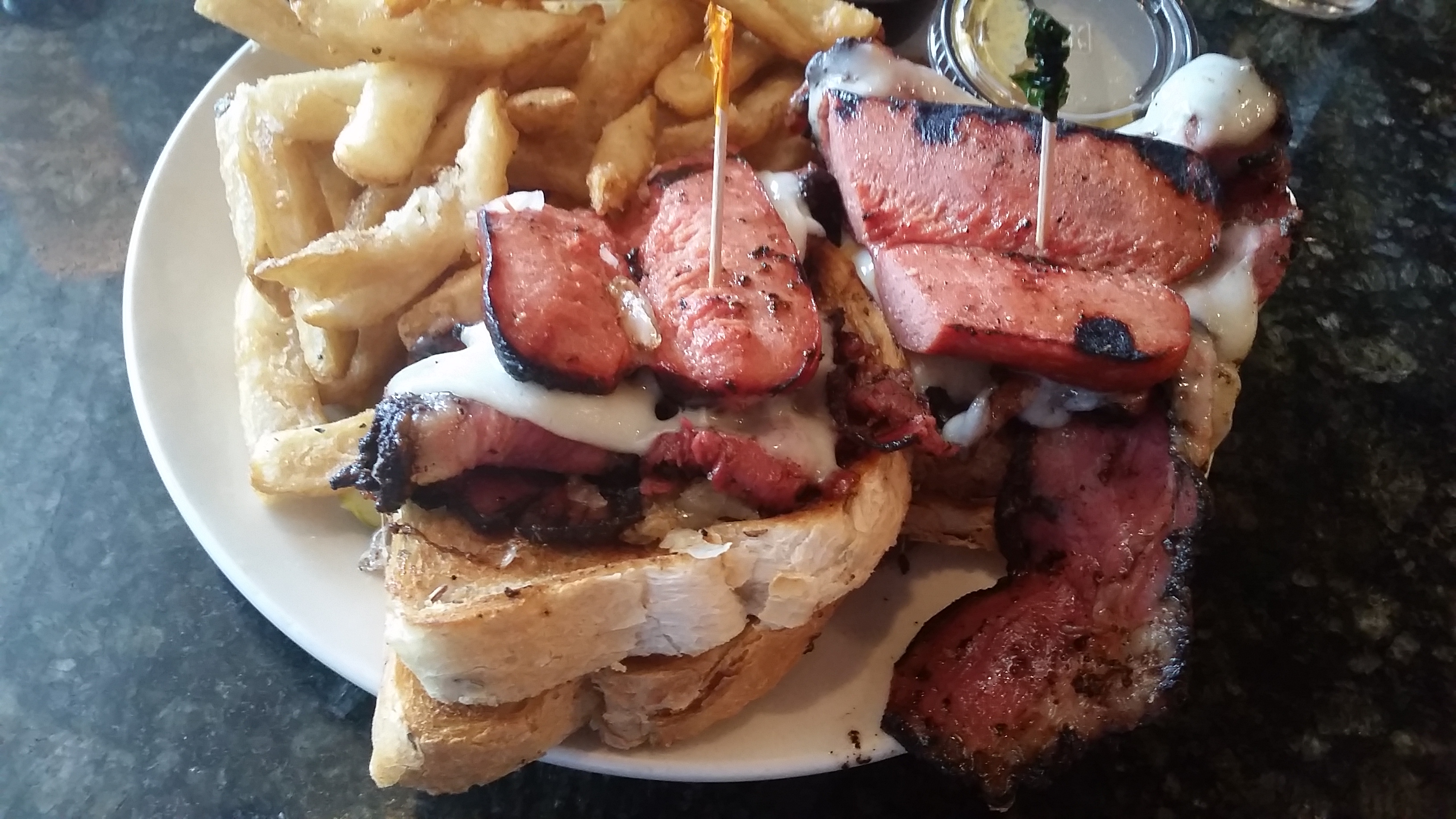 This is a picture of a Sailor Sandwich, taken at the New York Deli in Richmond Virginia